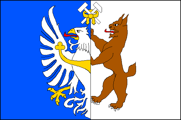 Municipal flag of Kladno city, Czech Republic.